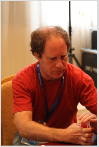 Fred Gitelman. Founder of BBO - Bridge Base Online, in 2001